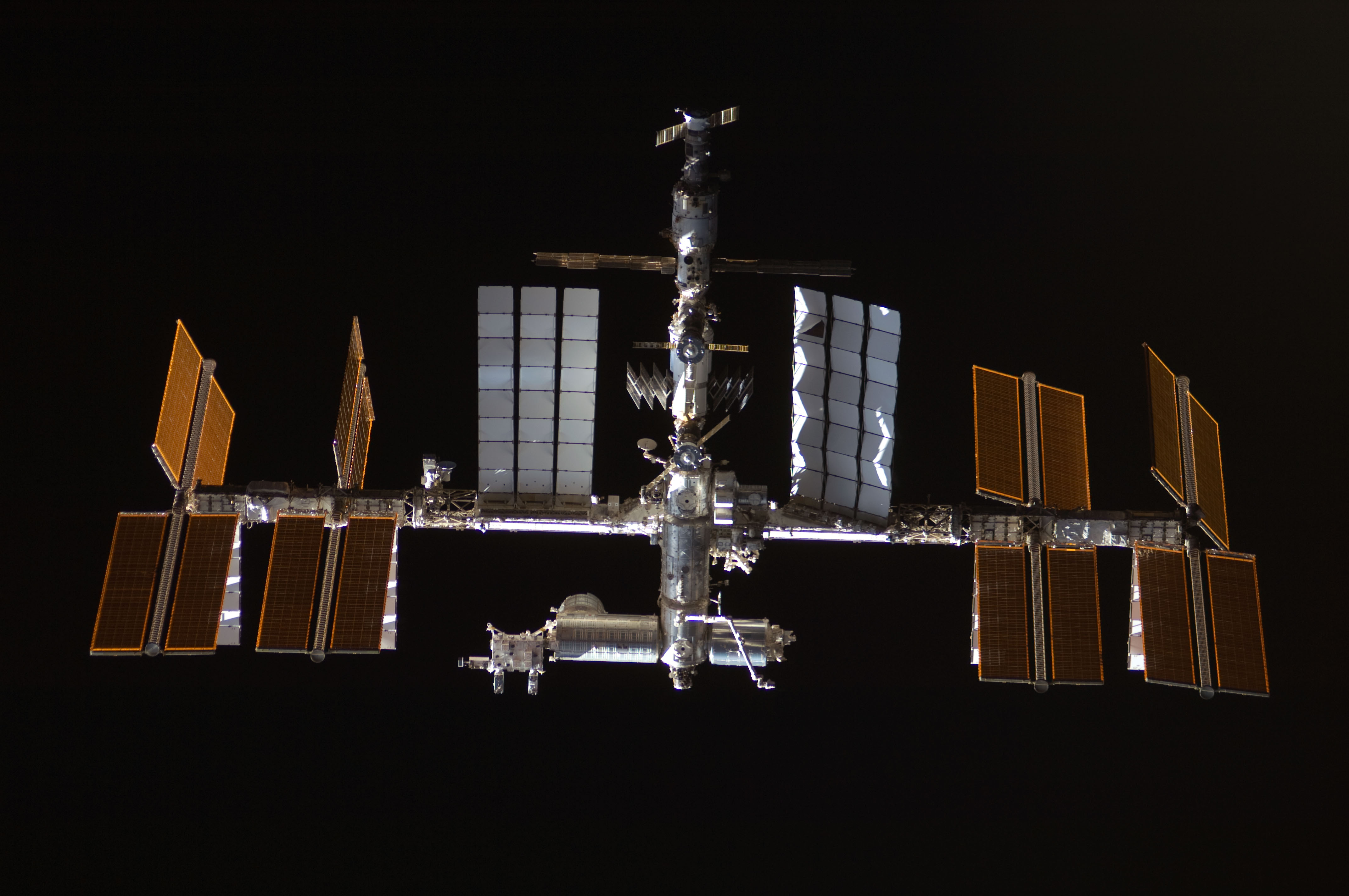 Photo of the international Space Station taken from Discovery on STS-128, notice that PMA-3 has been moved from Node 1 Nadir to Node 1 port.